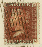 Penny Red. Postage stamp of the United Kingdom, 1855, scott#9, perf. 16.